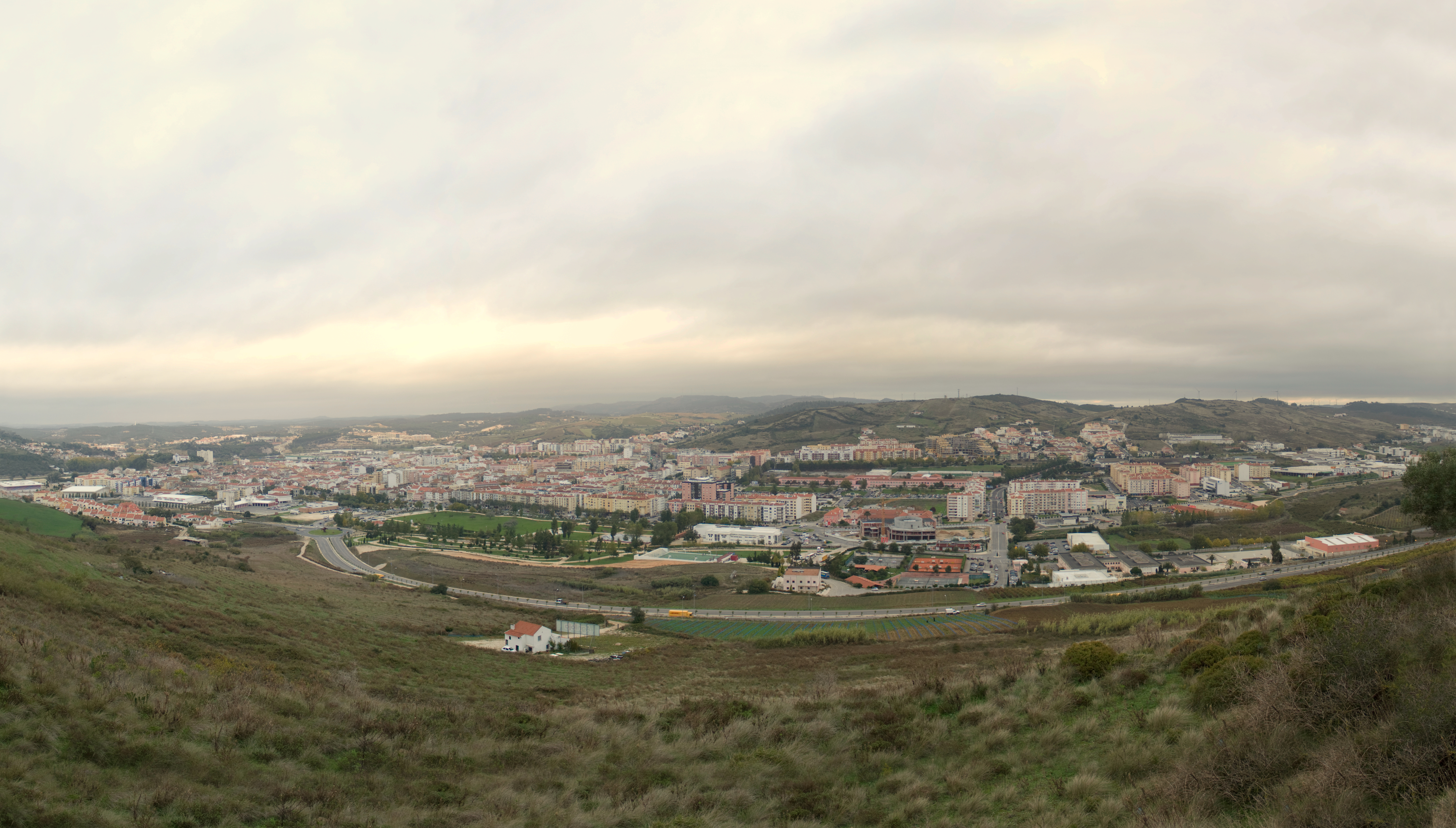 Panoramic view of Torres Vedras